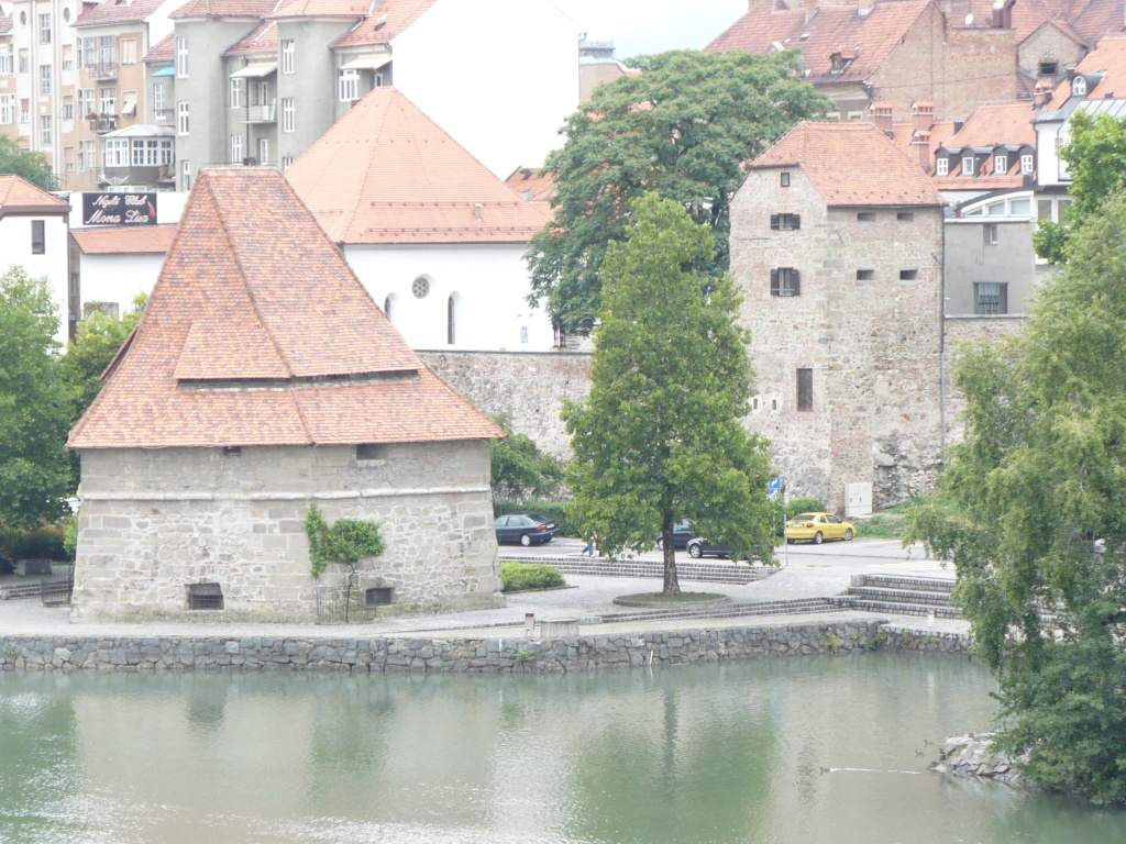 Maribor Jewish qwarter and Water tover